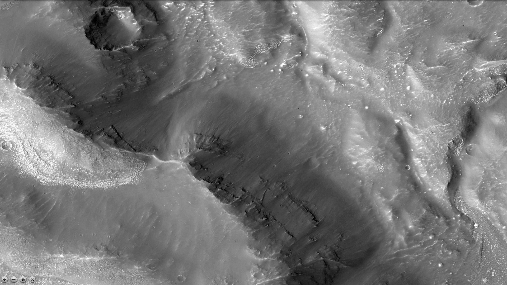 Lanpland Crater showing layers, as seen by ctx